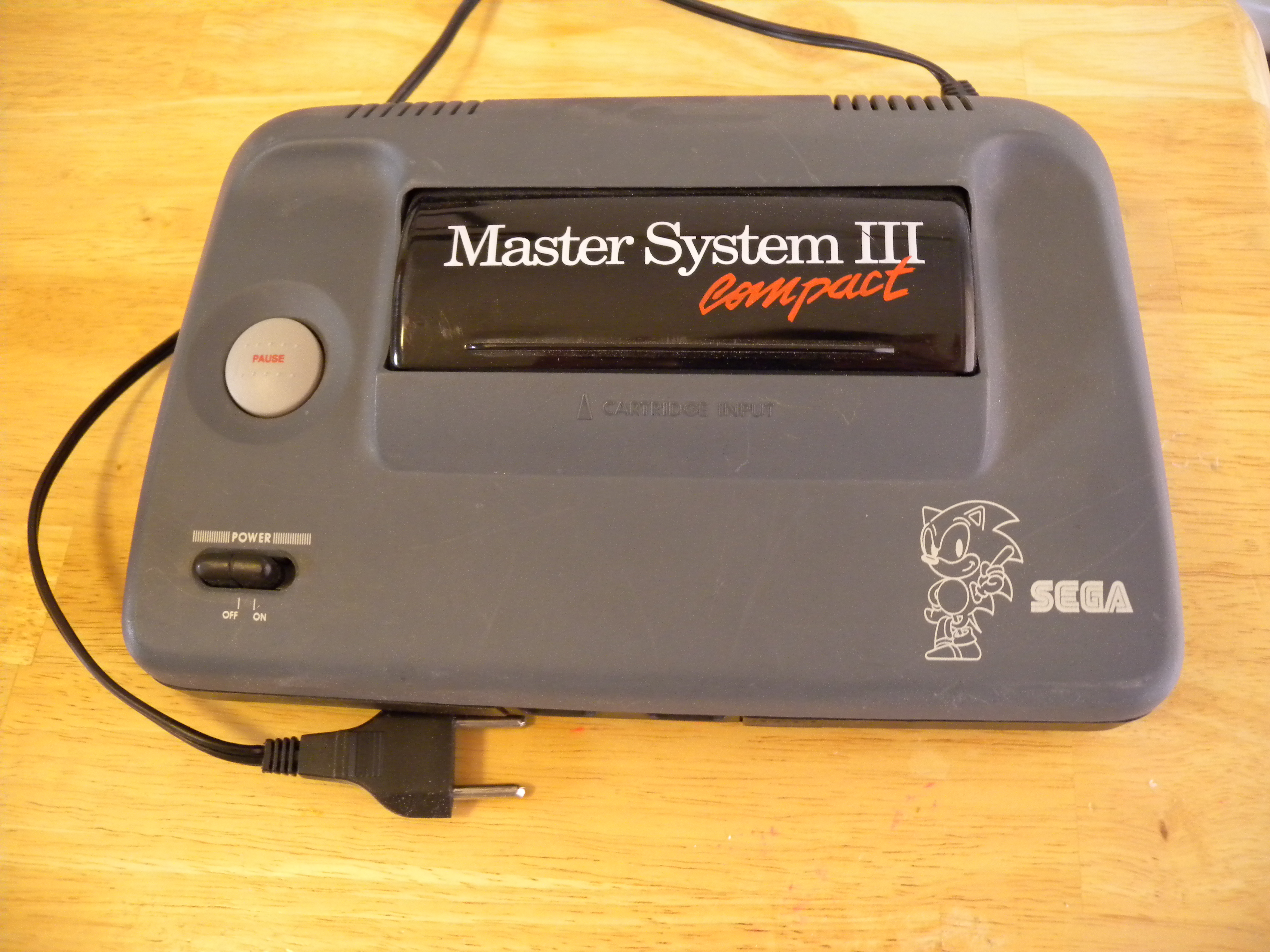 Brazilian "Sega Master System III" manufactured by TecToy.